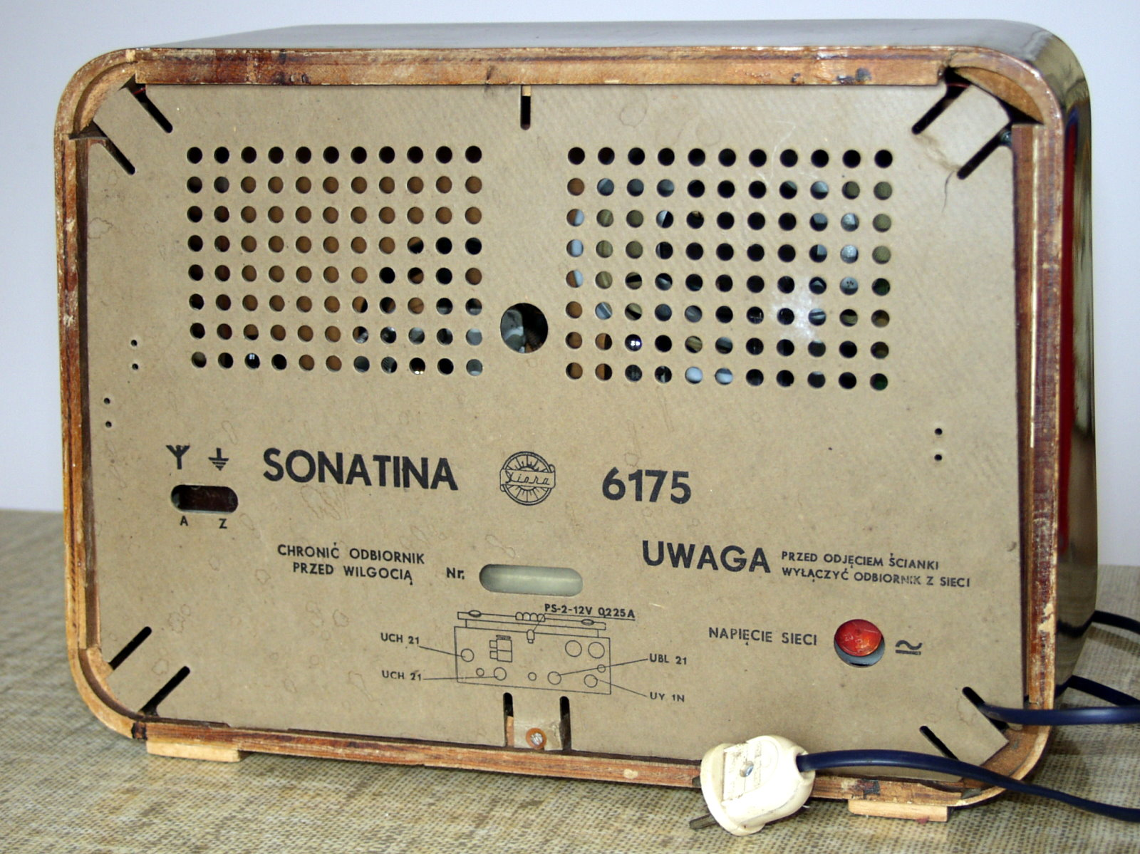 Radio "Sonatina", manufacturer: "DIORA" (Poland), 1957-1963